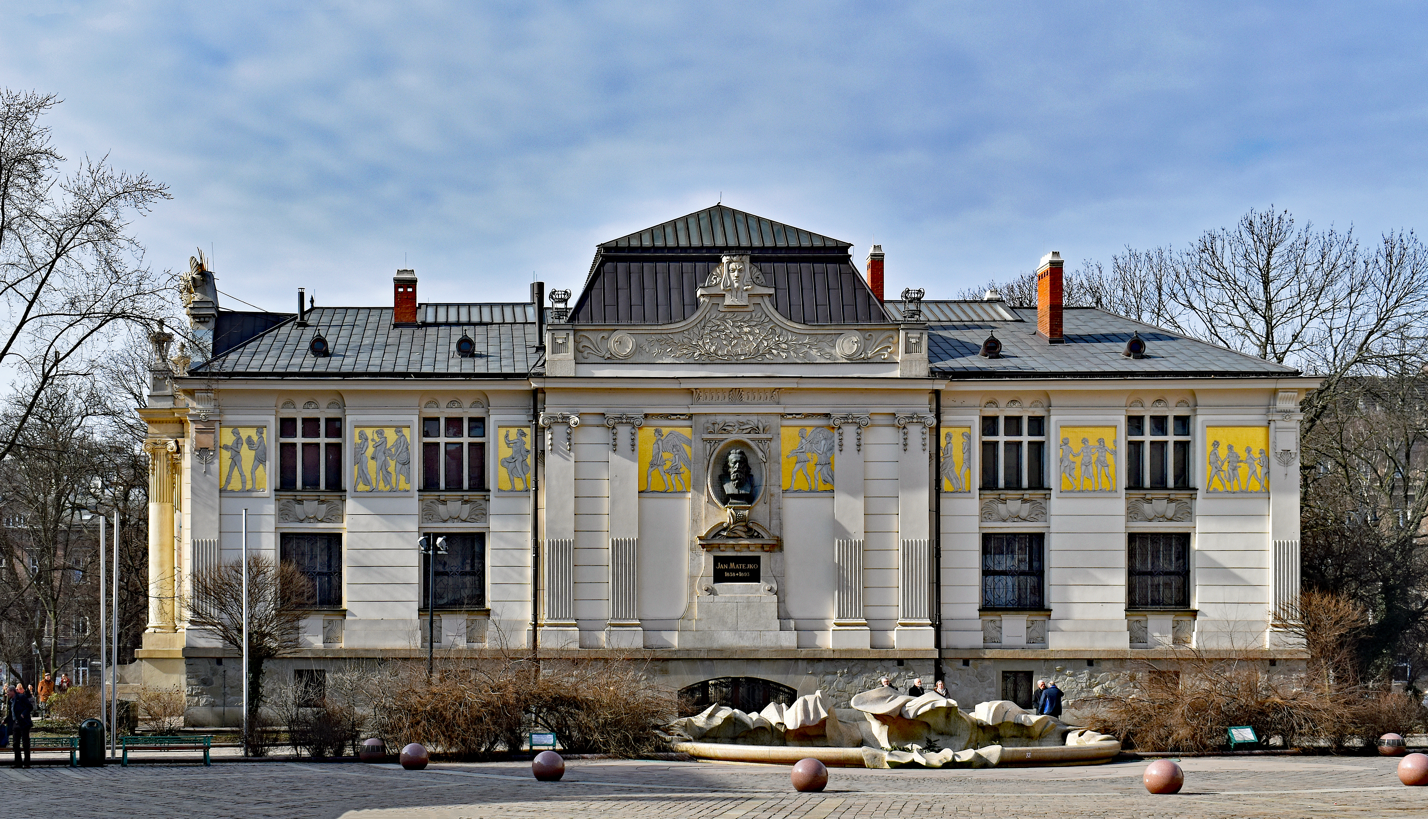 Palace of Art, 4 Szczepanski square, Old Town, Krakow, Poland